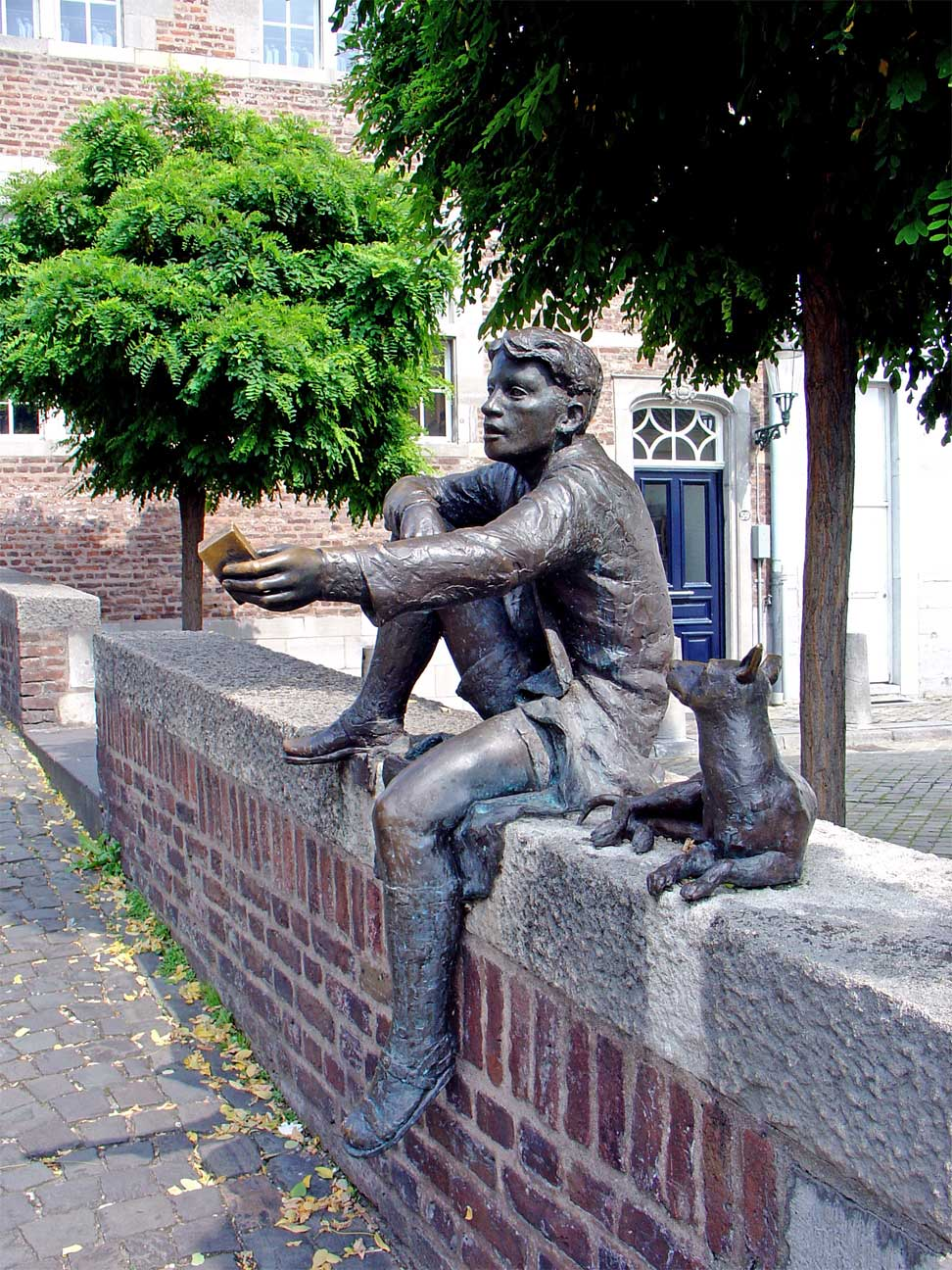 The south end of the Stokstraat